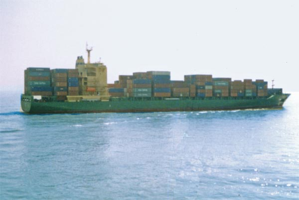 A freight ship off the coast of Mumbai.